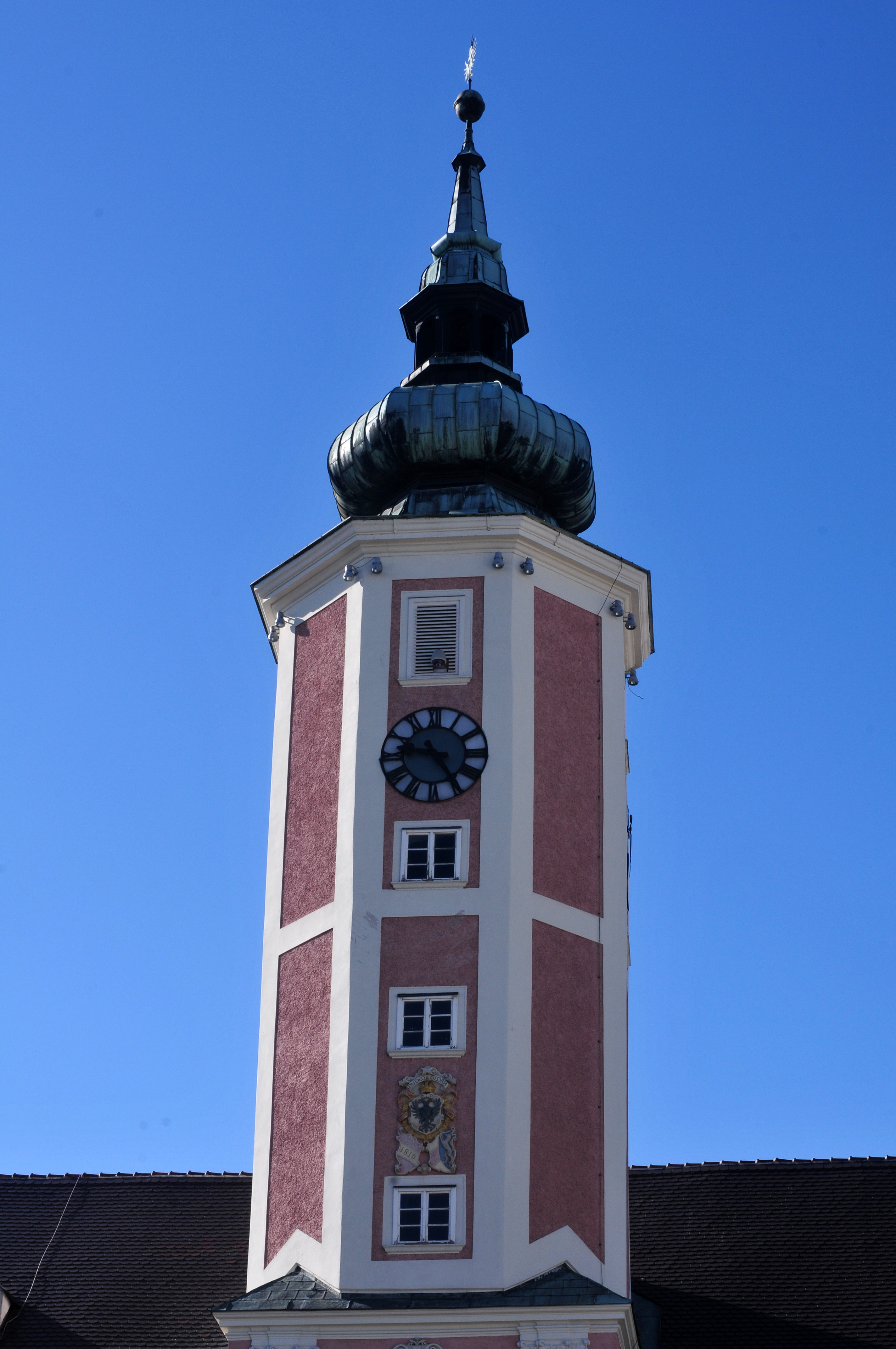 St. Pölten, Austria Fotowanderung St. Pölten 13. April 2013 in St. Pölten, Niederösterreich 50mm • Allgemeines • Bahnhof • Domplatz • Fahrräder • Landhausviertel • Rathausplatz This file is used in a Wikiversity project or course. Please don't change it before you inform the author. auch nicht das ganze Rathaus